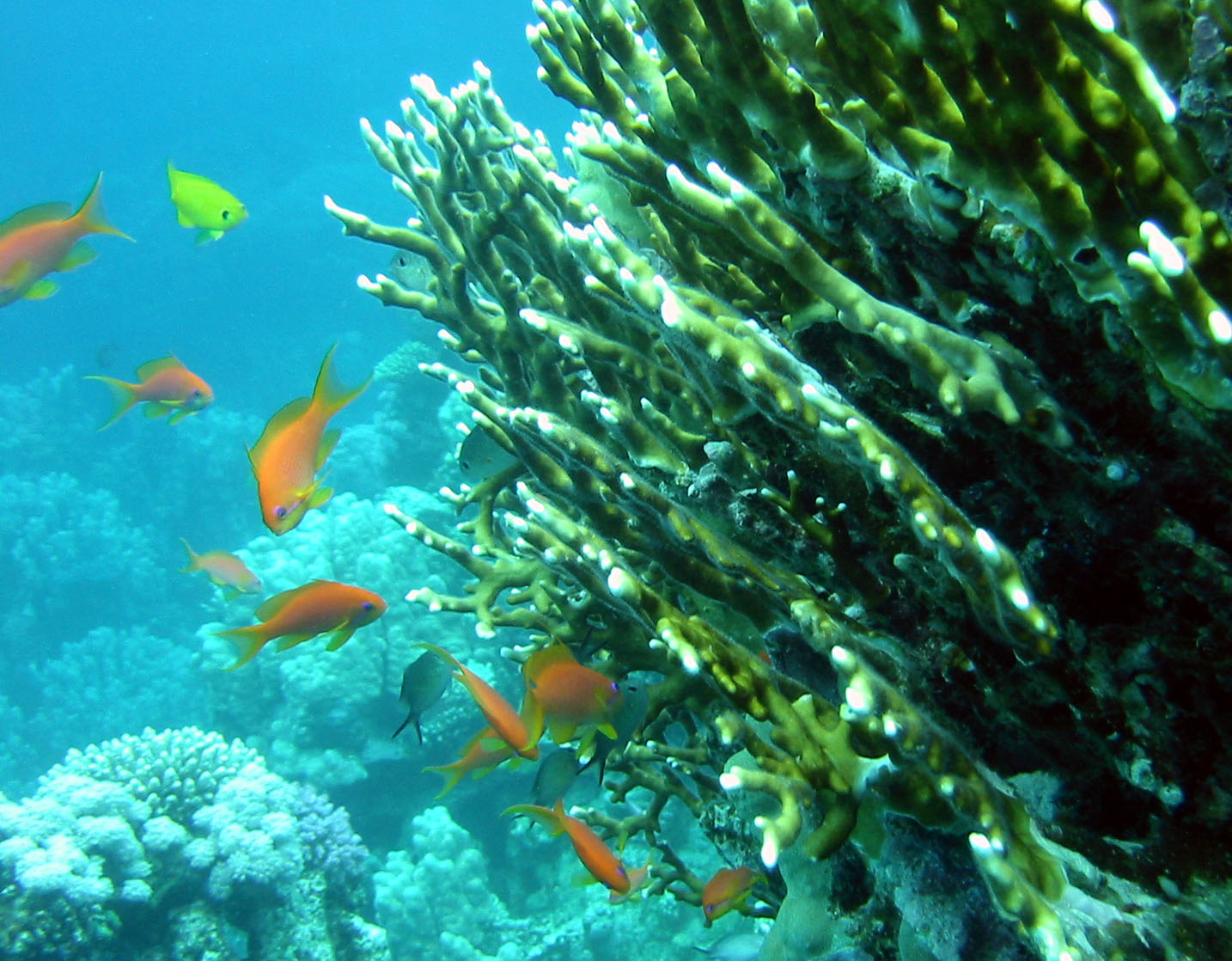 millepora spp photographed in Dahab Red Sea